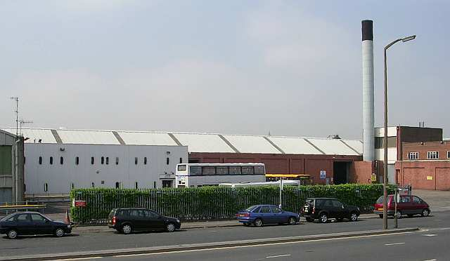 Kirkstall Road - First Bus Depot. The bus depot closed in 2008, see 1046998